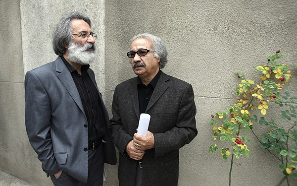 Funeral of Nemat Haghighi (17 8902120535 L600)